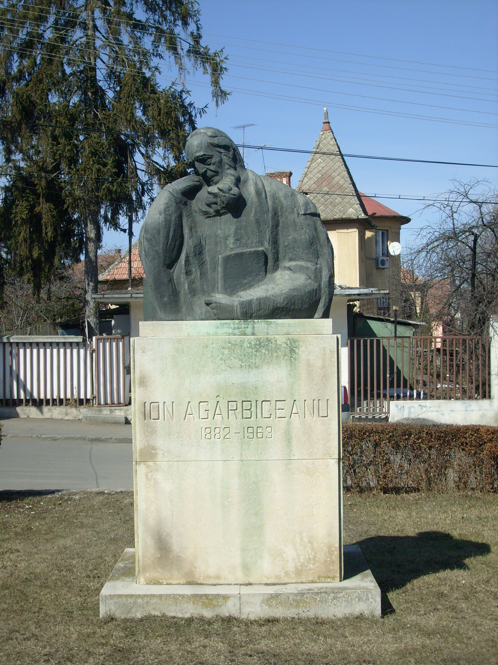 Staue of Ion Agârbiceanu, Cluj.